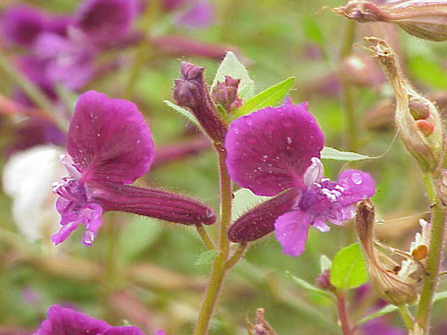 Species: Cuphea hyssopifolia Family: Lythraceae Image No. 2